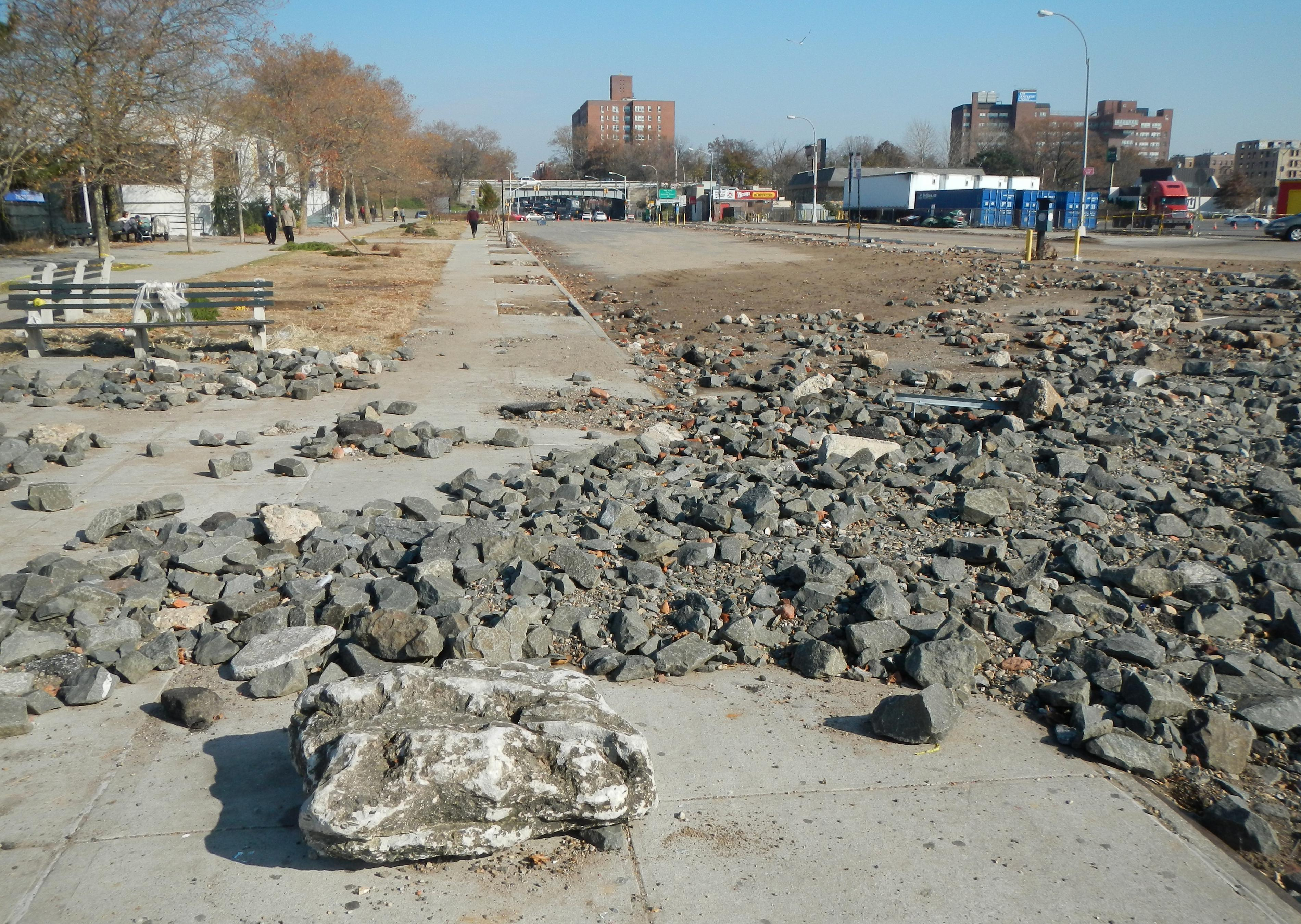 Looking northeast on a sunny day, at end of Bay Parkway littered with stones cast up by hurricane.